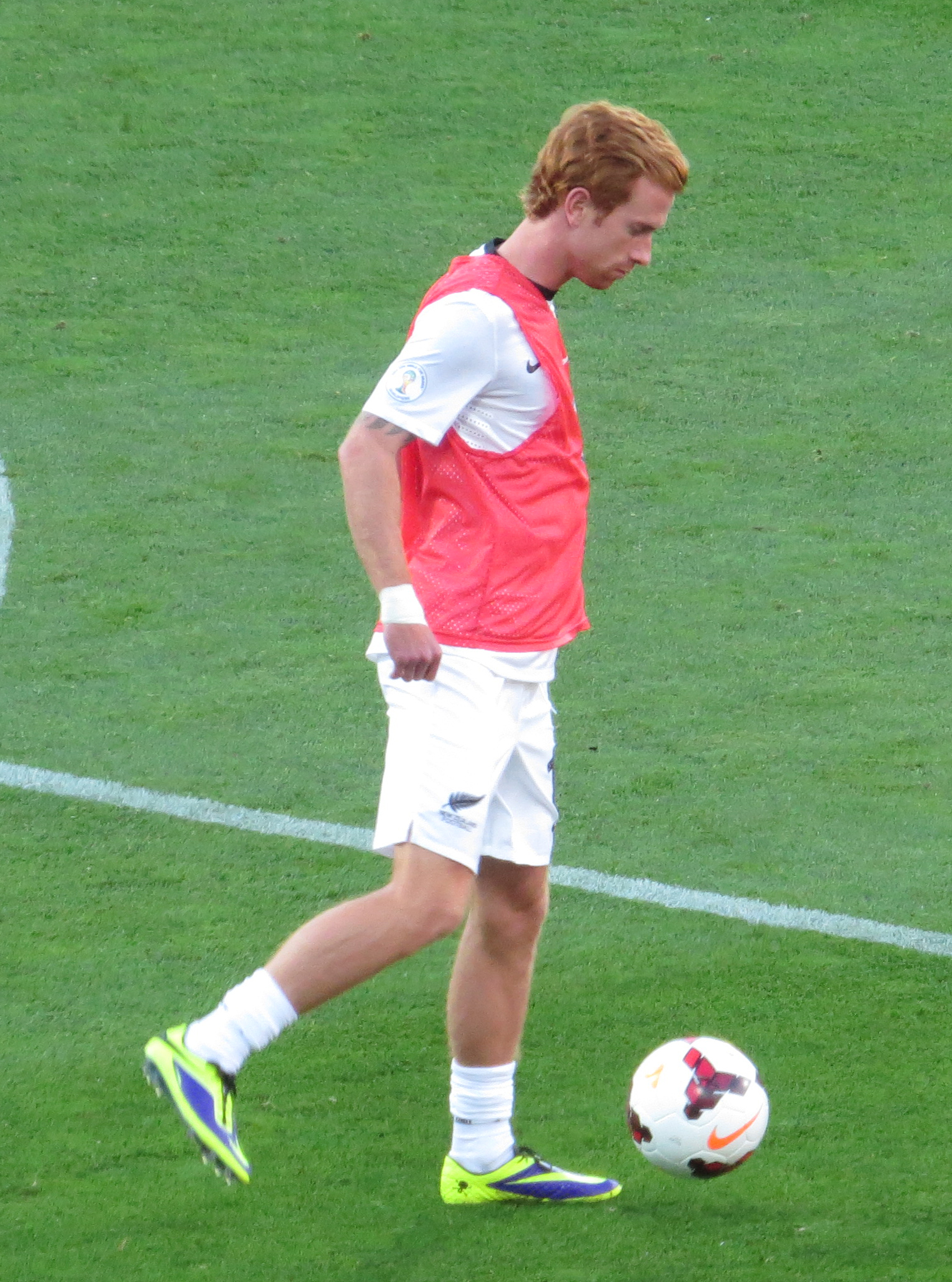 New Zealand All Whites midfielder Aaron Clapham warming up at half time during their 2014 World Cup Qualification match against Mexico.